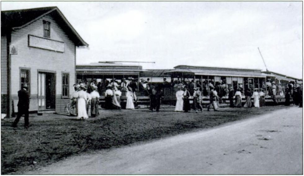 Sea View Line electric trolley at Sea View Station in Narragansett Pier built in 1898 and extended to East Greenwich in 1900